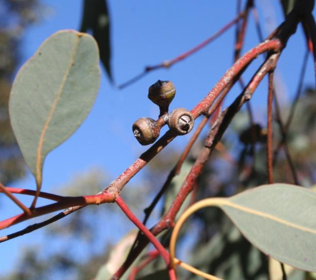 Fruit of Eucalyptus prava near the Circuit Trail, Girraween National Park, Queensland